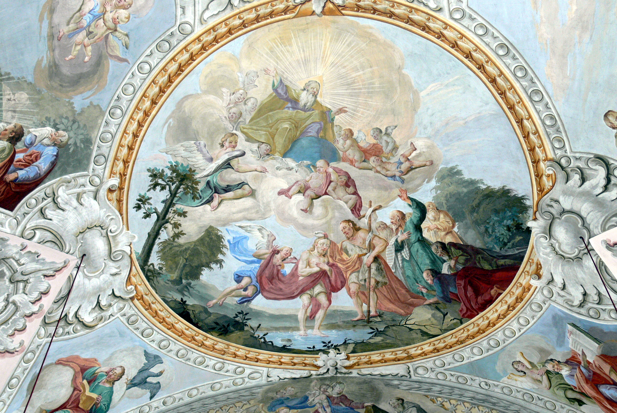 Scheffau parish church - Fresco ( 1798 ): Baptism of Christ.